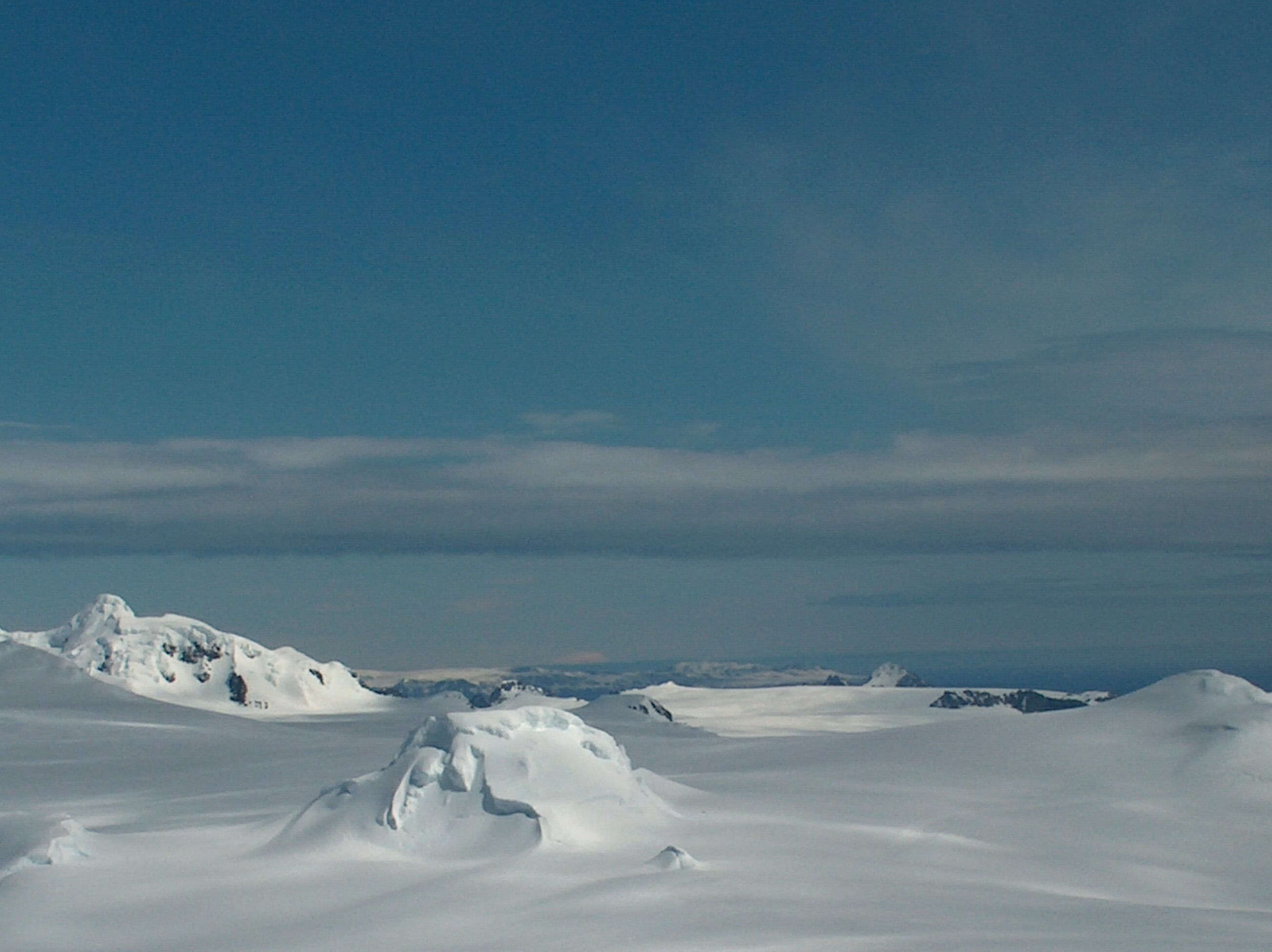 The Gurev Gap in eastern Livingston Island. source: Lyubomir Ivanov